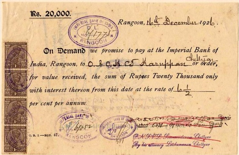 1926 Promissory Note from the Imperial Bank of India, Rangoon, Burma to pay the sum of twenty thousand Indian Rupees from 16 December 1926. Four one anna Indian postage stamps on the left for the tax payable on the document.